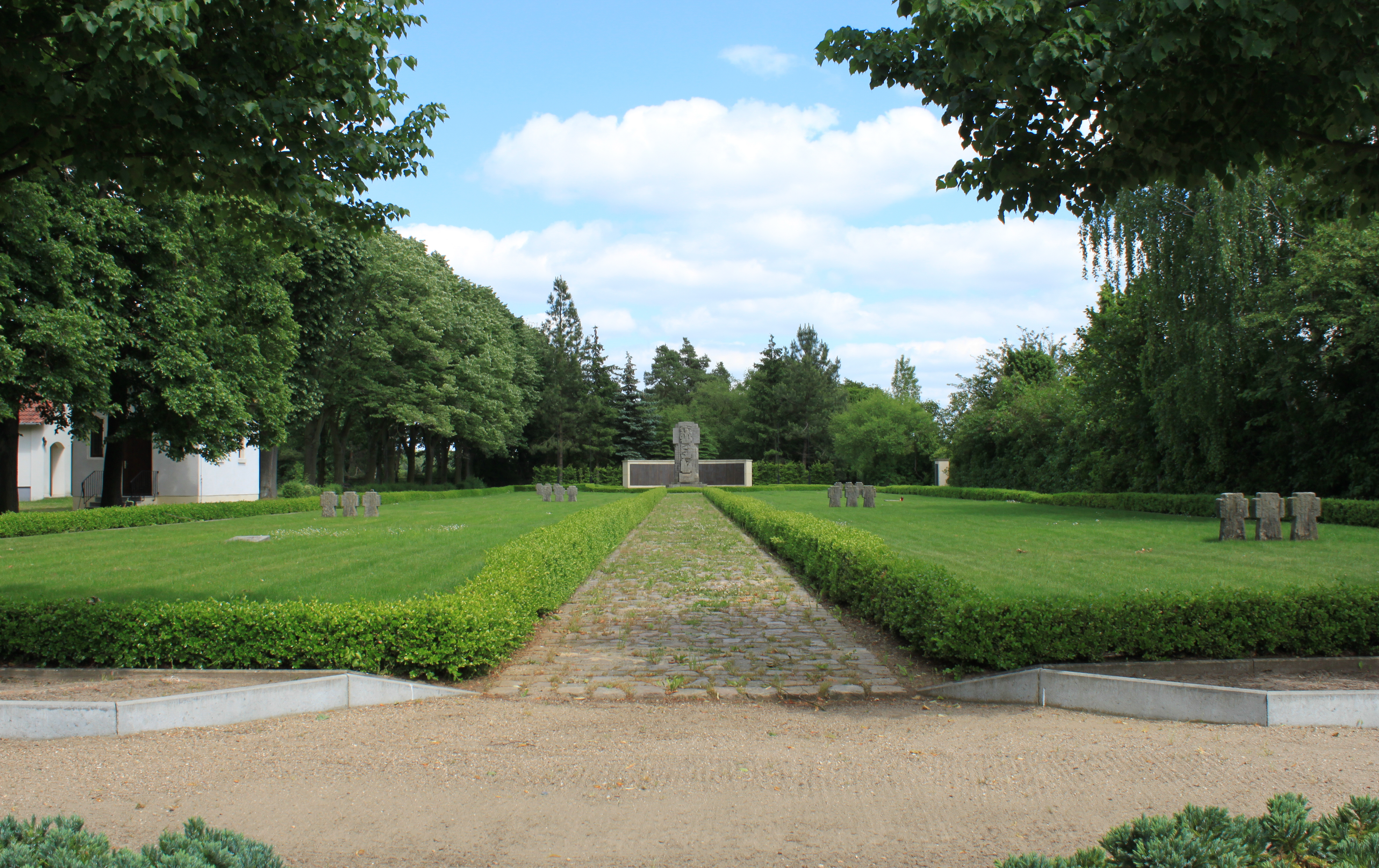 Soldatenfriedhof Neuburxdorf